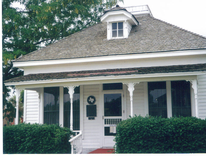 I took photo in 1999.